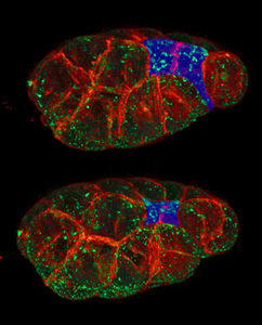 Two stages in the constriction of the apical surfaces (blue) of a pair of cells in a C. elegans embryo. Plasma membranes (red) and myosin (green) are marked. Goldstein lab, UNC Chapel Hill